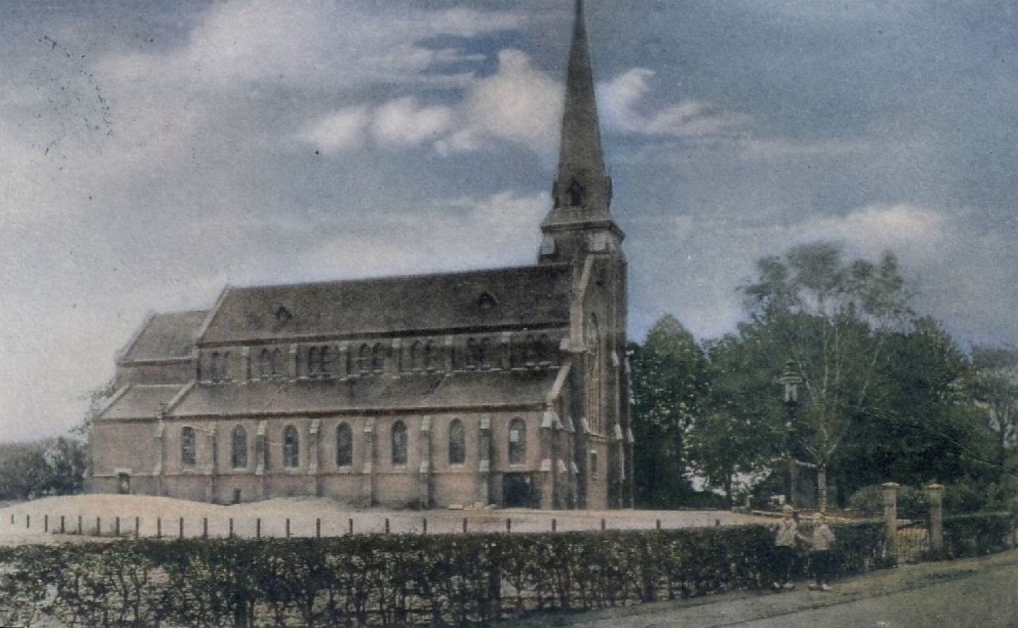 Sint-Martinuskerk in Hillegom